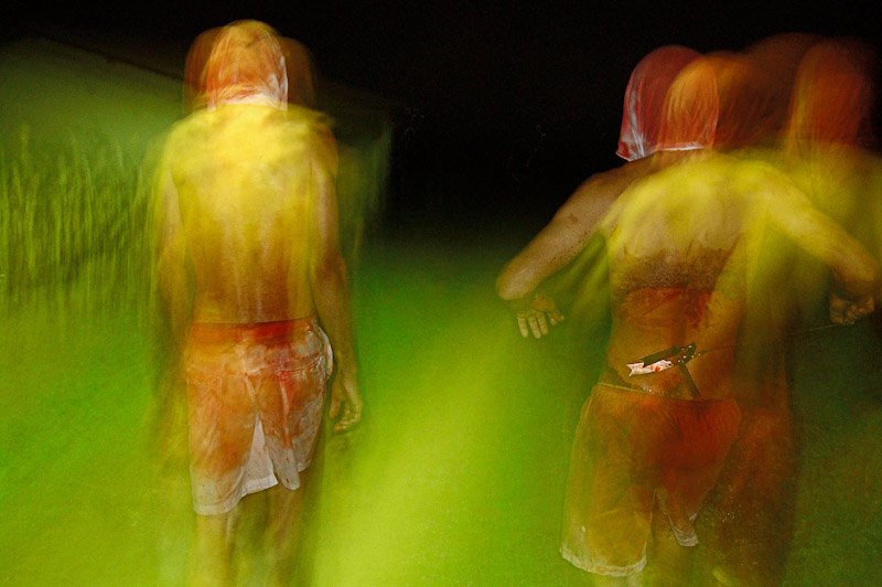 Self-flagellation. Penitentes, Sergipe-Brazil, 2002. Photo Guy Veloso